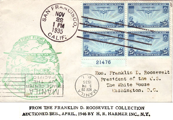 Cover flown on the Martin M-130 flying boat PAA "China Clipper" (NC14716) from Alameda, CA, to Manila, PI, over FAN 14, November 22-29, 1935